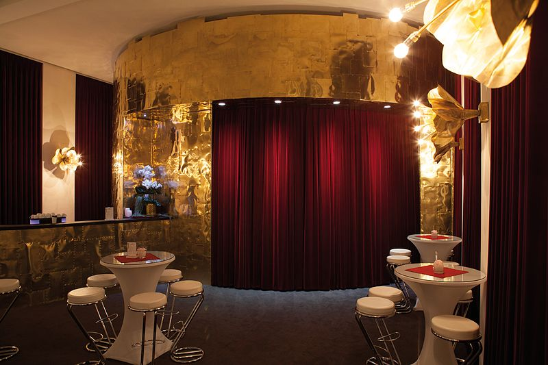 The foyer of the first Table Magic Theatre in Germany.